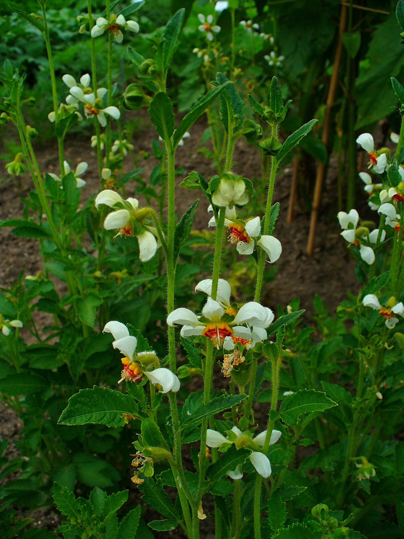 Loasa vulcanica, Loasaceae, habitus. Botanical Garden KIT, Karlsruhe, Germany.